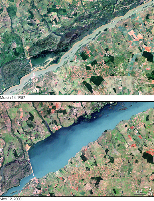 Porta Primavera (Sergio) Dam under construction in 1987 before flooding.